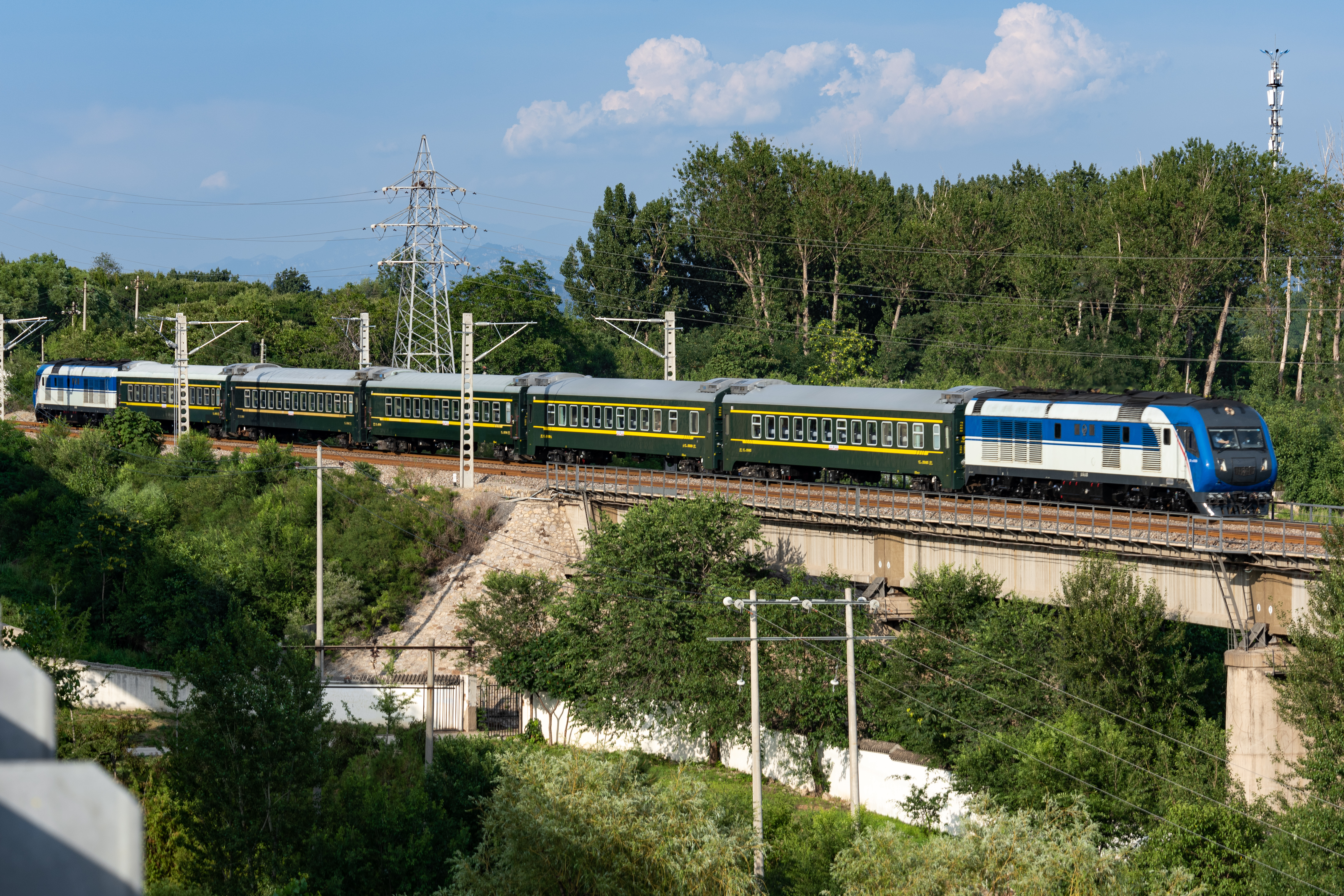 S612 from Huairou North to Tongzhou West. The newly-opened suburban railway "Tong-Mi Line" (wait a minute...) features "DF11G-splitting" on its Huairoubei branch. The Miyun branch is hauled by DF4C...